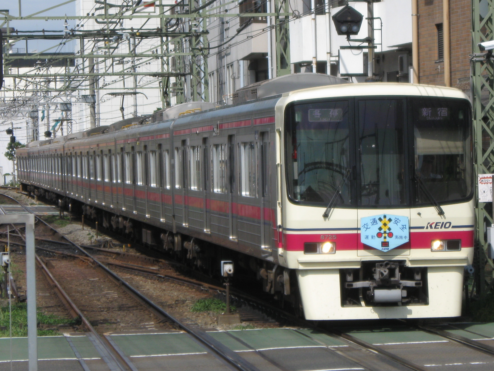 Keio EMU unit 8725 with a plate to emphasis safety in general trafic